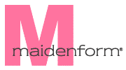 Logo of Maidenform